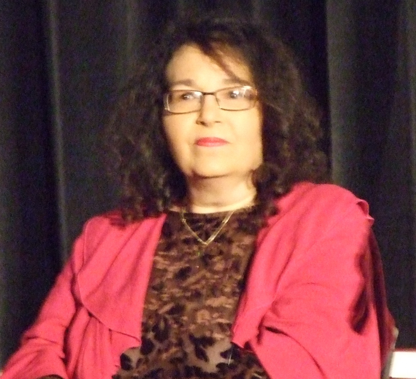 Melinda Gebbie ( The Sausalito Sausage ) at TAM London 2010. While being interviewed by Rebecca Watson.